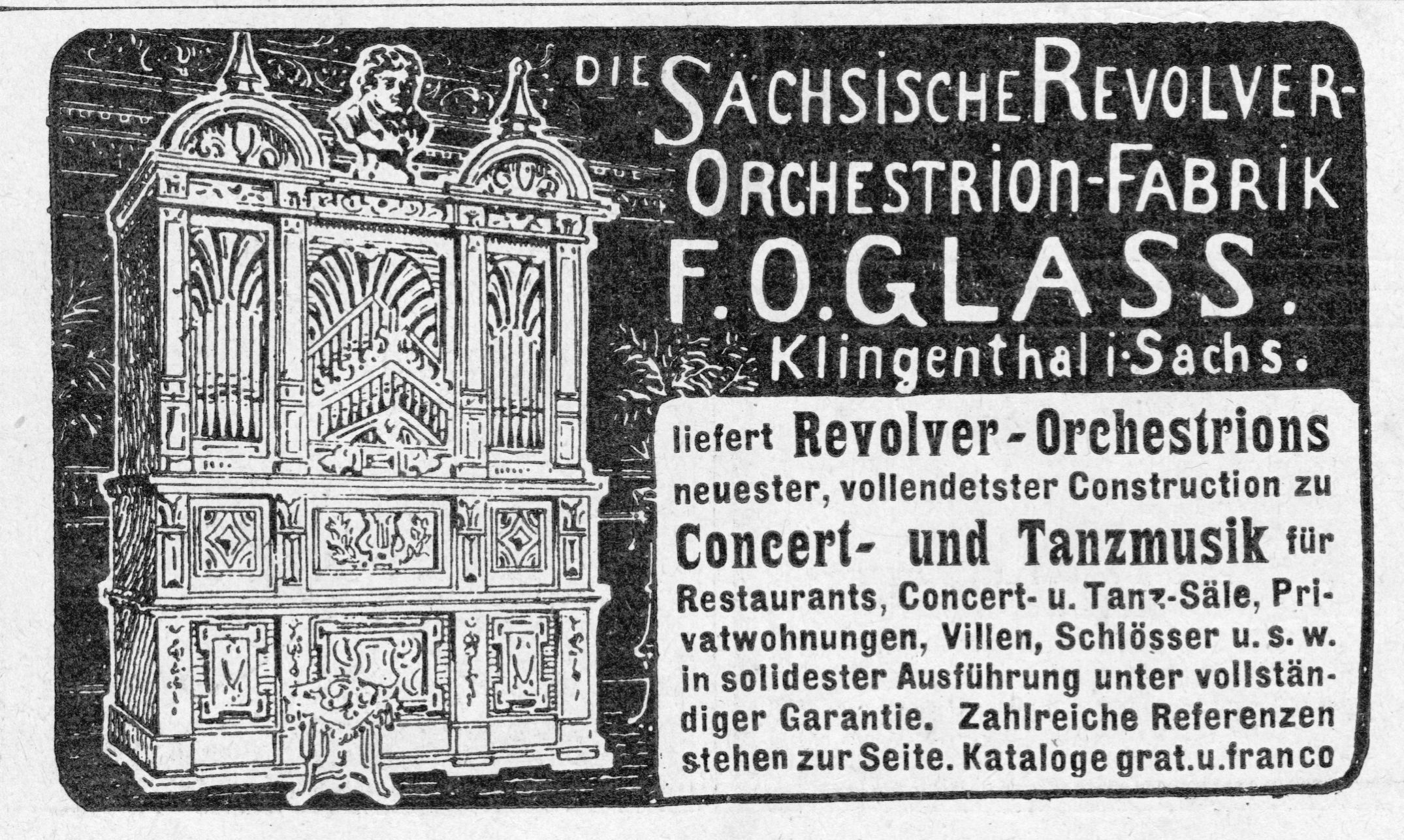 ad for orchestrions